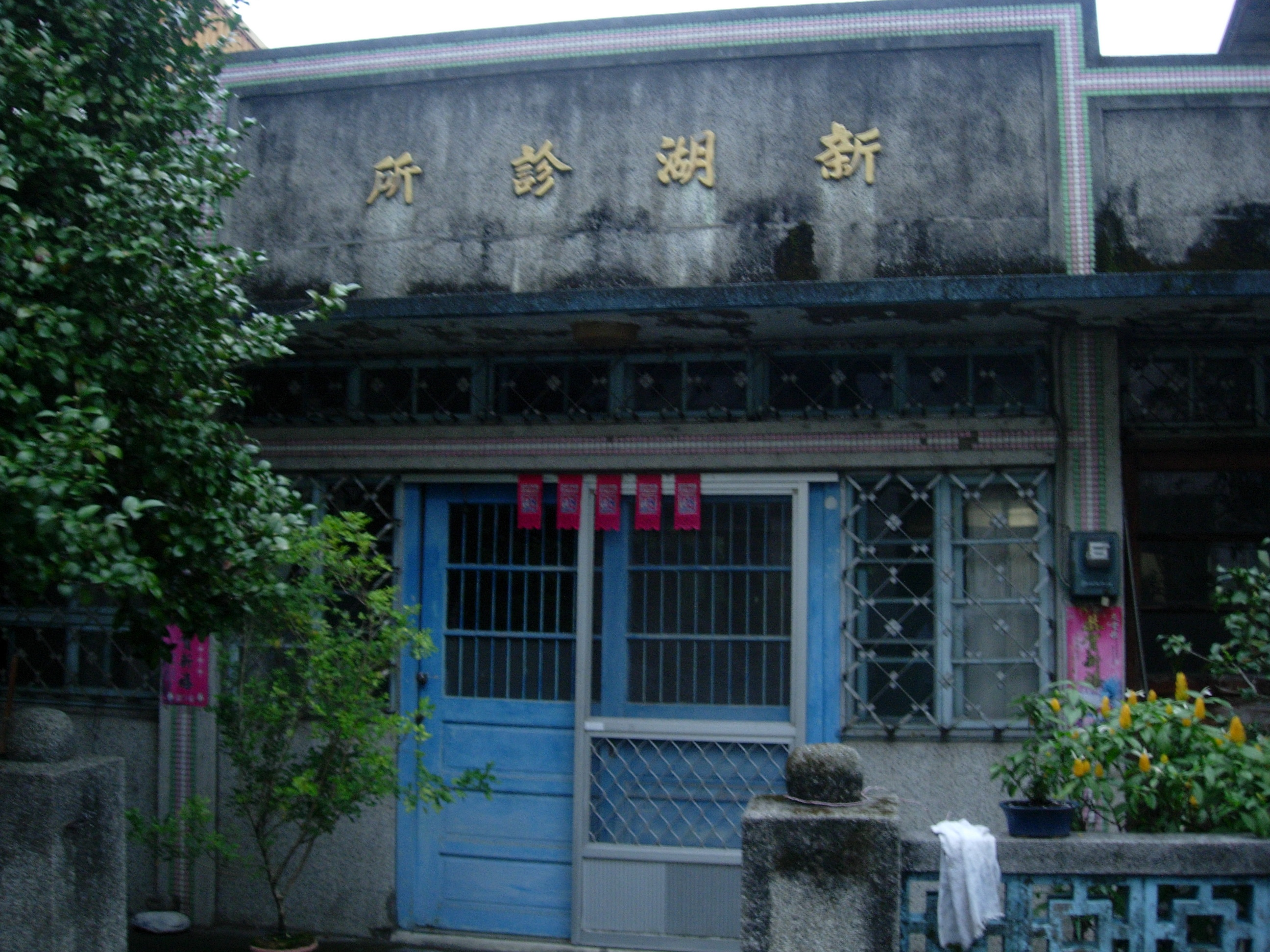 Hsinhu Clinic in Dahu Township, Miaoli County.